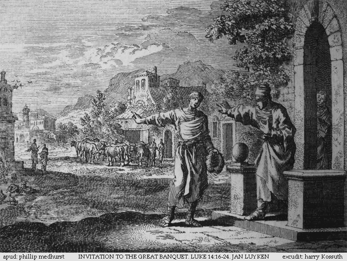 An etching by Jan Luyken illustrating Luke 14:16-24 in the Bowyer Bible, Bolton, England.